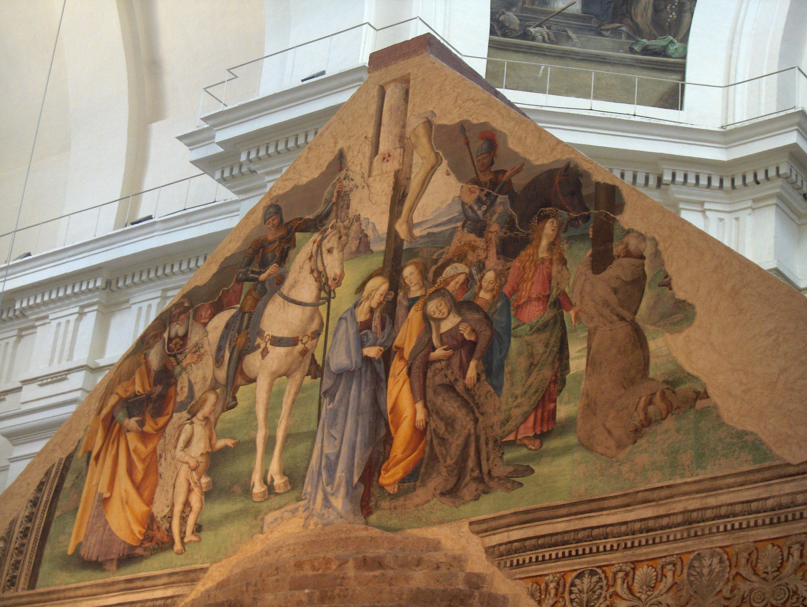 Fresco of the Crucifixion on the Porziuncola (attributed to Perugino); Basilica of Santa Maria degli Angeli, Assisi, Italy (the top section has been destroyed when the high choir above the Porziuncola was demolished in the 16th century)